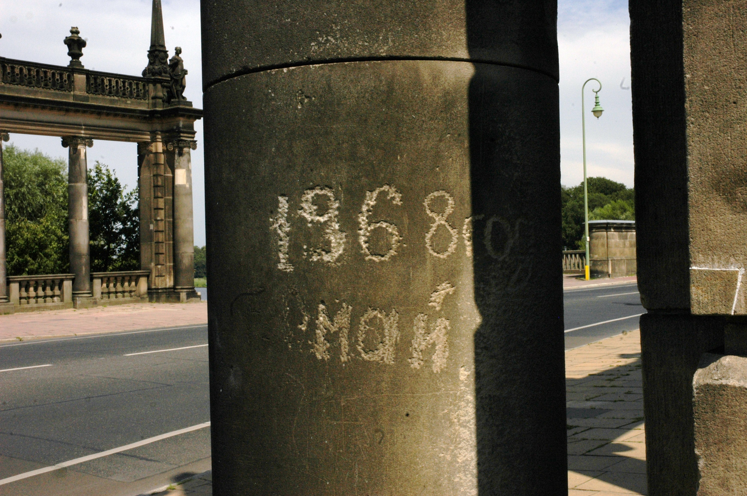 Russian Grafitti Russisk rafitti